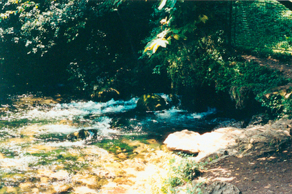 Picture taken by user Asim Led